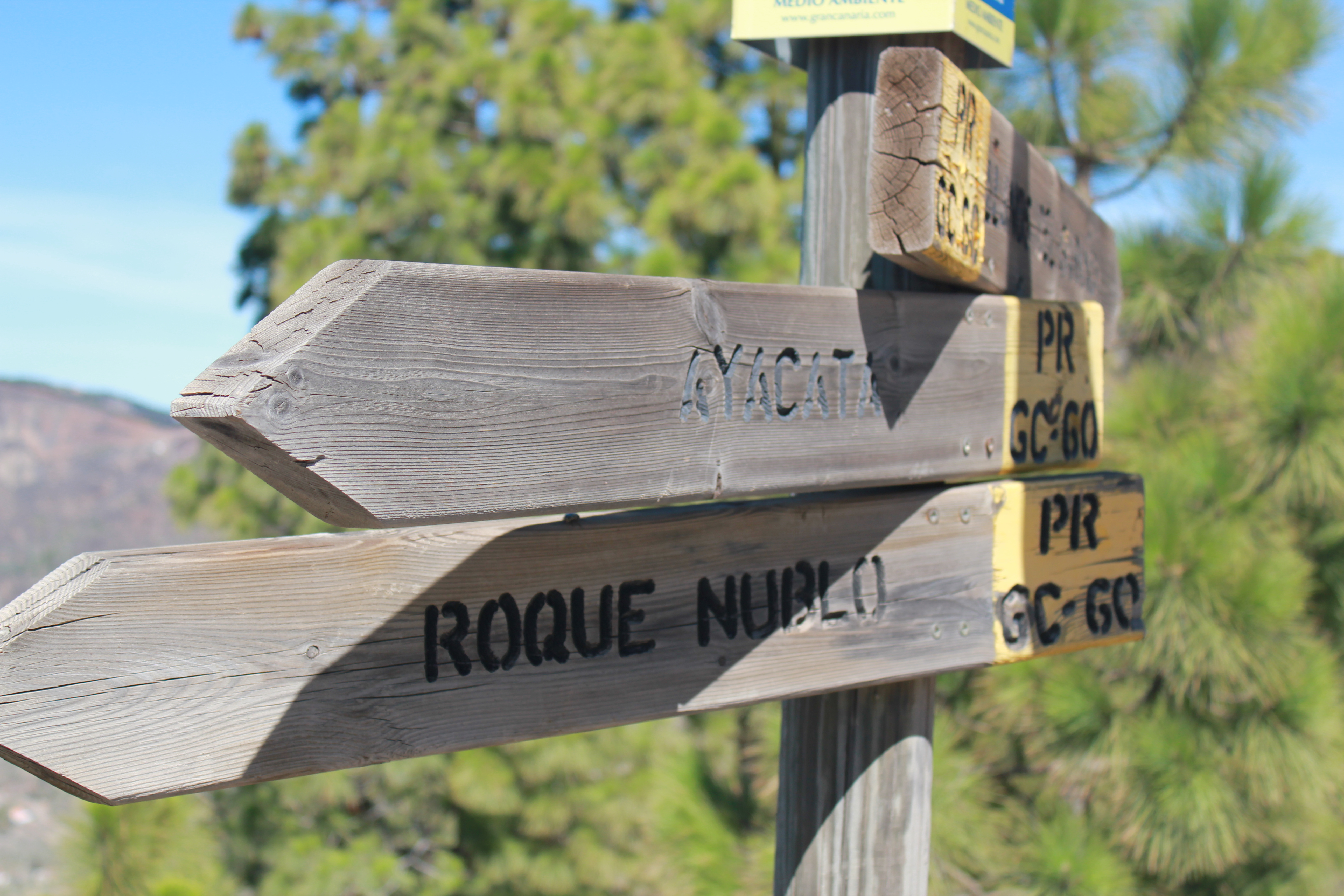 Sign of Roque Nublo